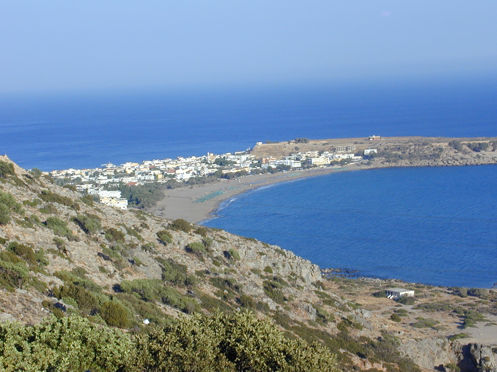 The town Palaiochora on the island of Crete, Greece. View from the west.